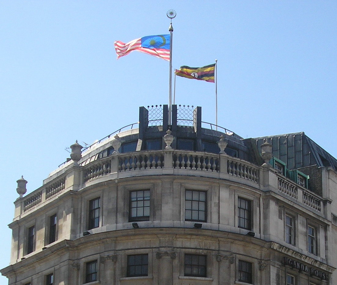 Flag of the Malaysia above the office for Tourism Malaysia in London and the flag of Uganda above its High Commission to the United Kingdom- Trafalgar Square, London.